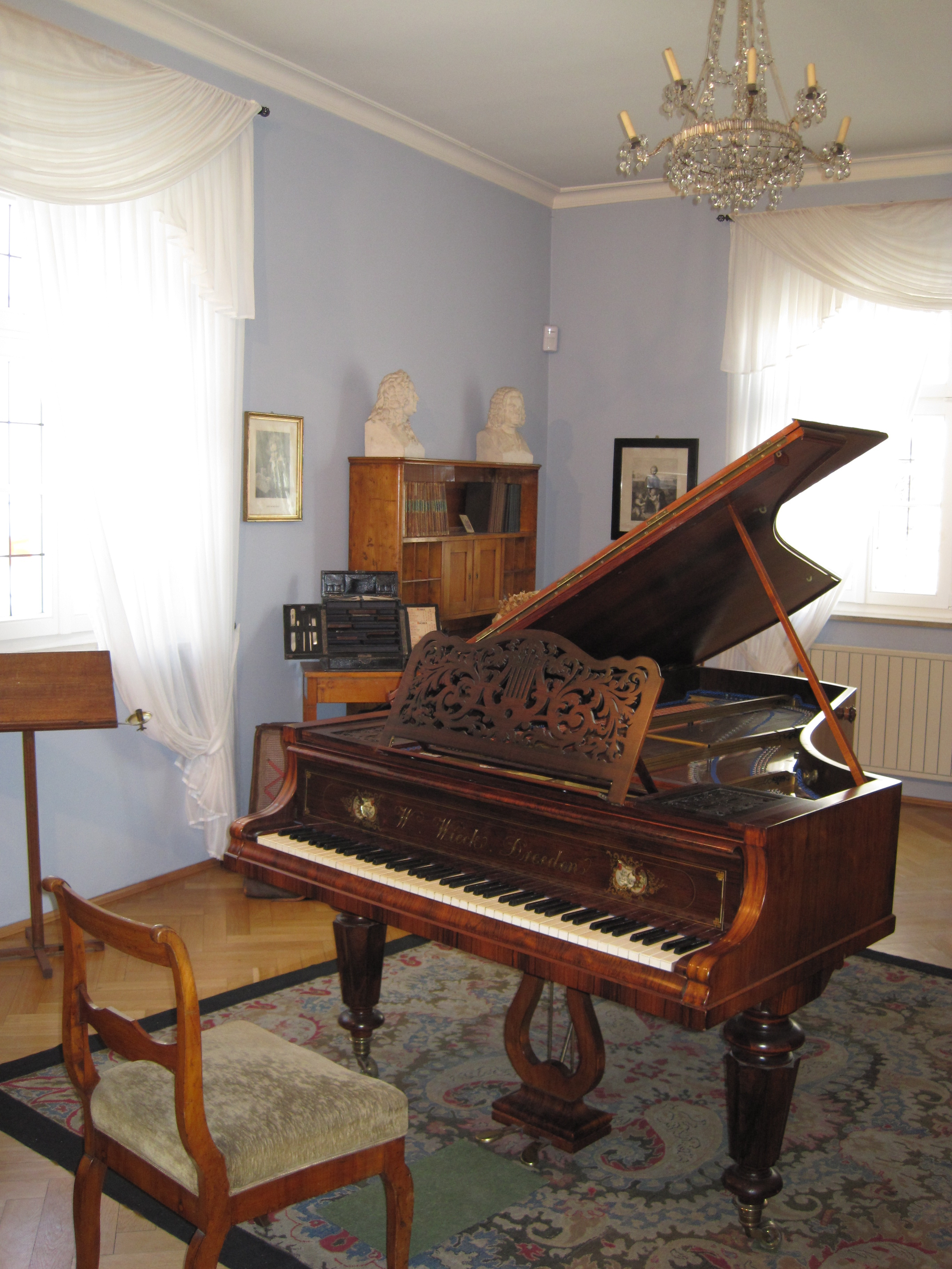 Room of music from Robert Schumann in Zwickau (house of Robert Schumann, museum, Hauptmarkt 5).